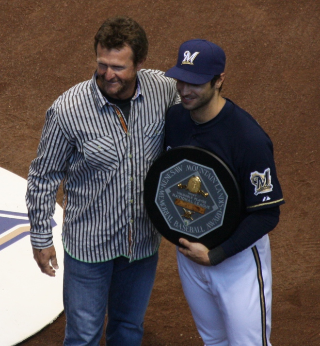 2011 Major League Baseball Most Valuable Player Award winner from the National League Ryan Braun accept his award from 1989 American League winner Robin Yount.